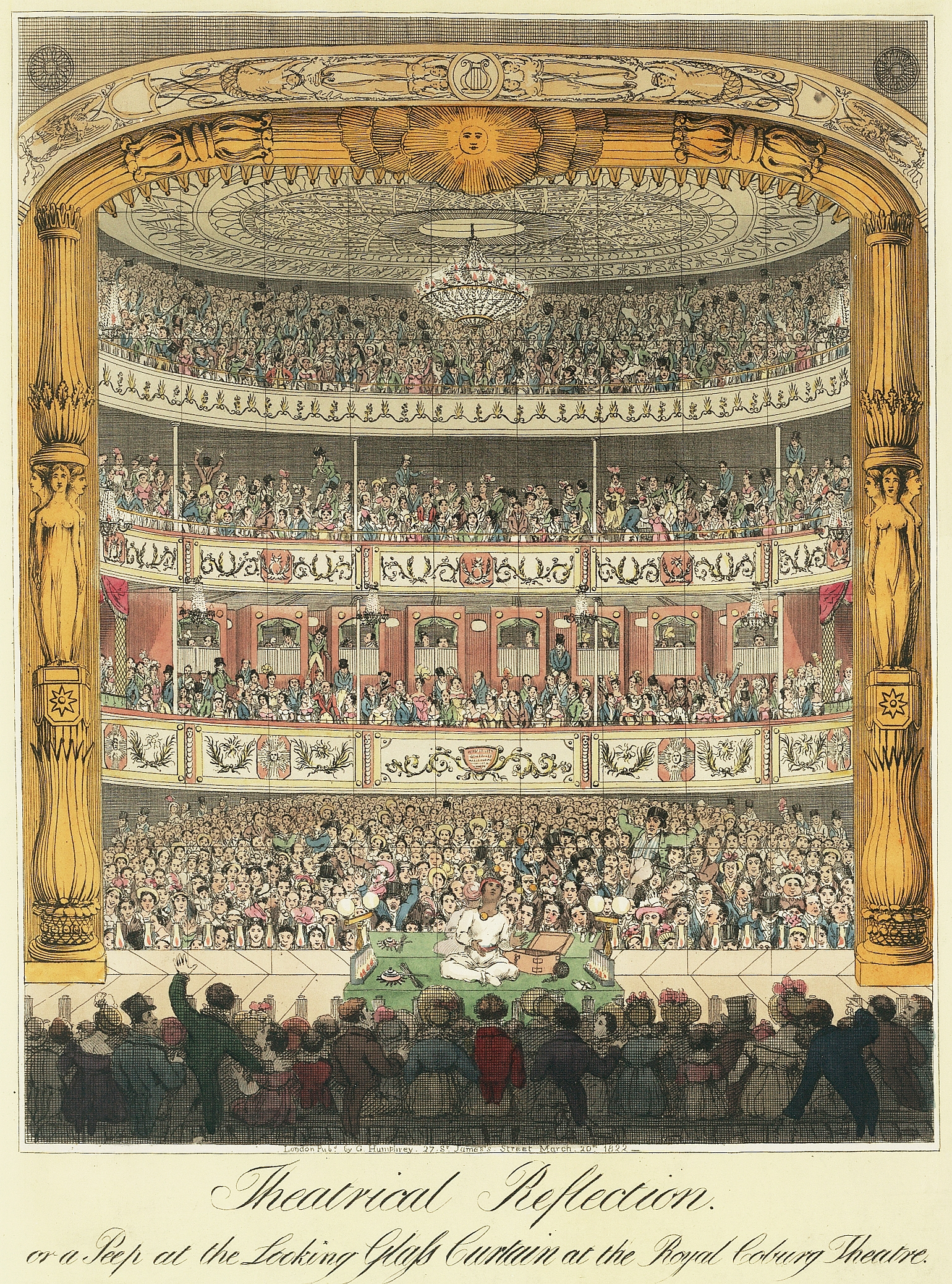 "Theatrical Reflection, or a Peep at the Looking Glass Curtain at the Royal Coburg Theatre." Print shows the mirrored curtain reflecting the audience at the Royal Coburg Theatre (London Old Vic Theatre) and Ramo Samee, a juggler, magician, and sword swallower, juggling on stage. Hand-colored etching.